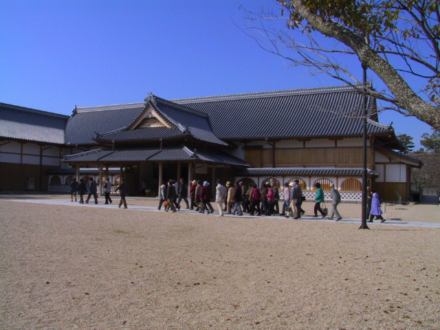 Historical museum of Saga Castle, Saga City, Saga Prefecture, Japan.